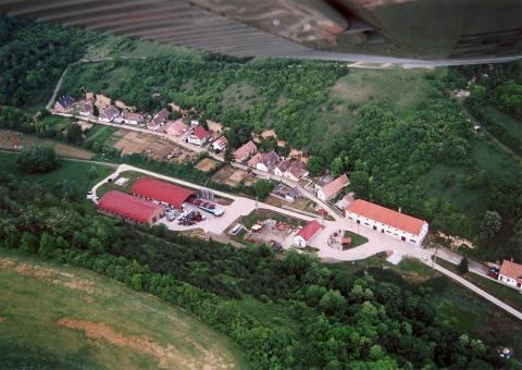 Aerial wiev of Bátaapáti, Fasl factory; Tolna County, Hungary